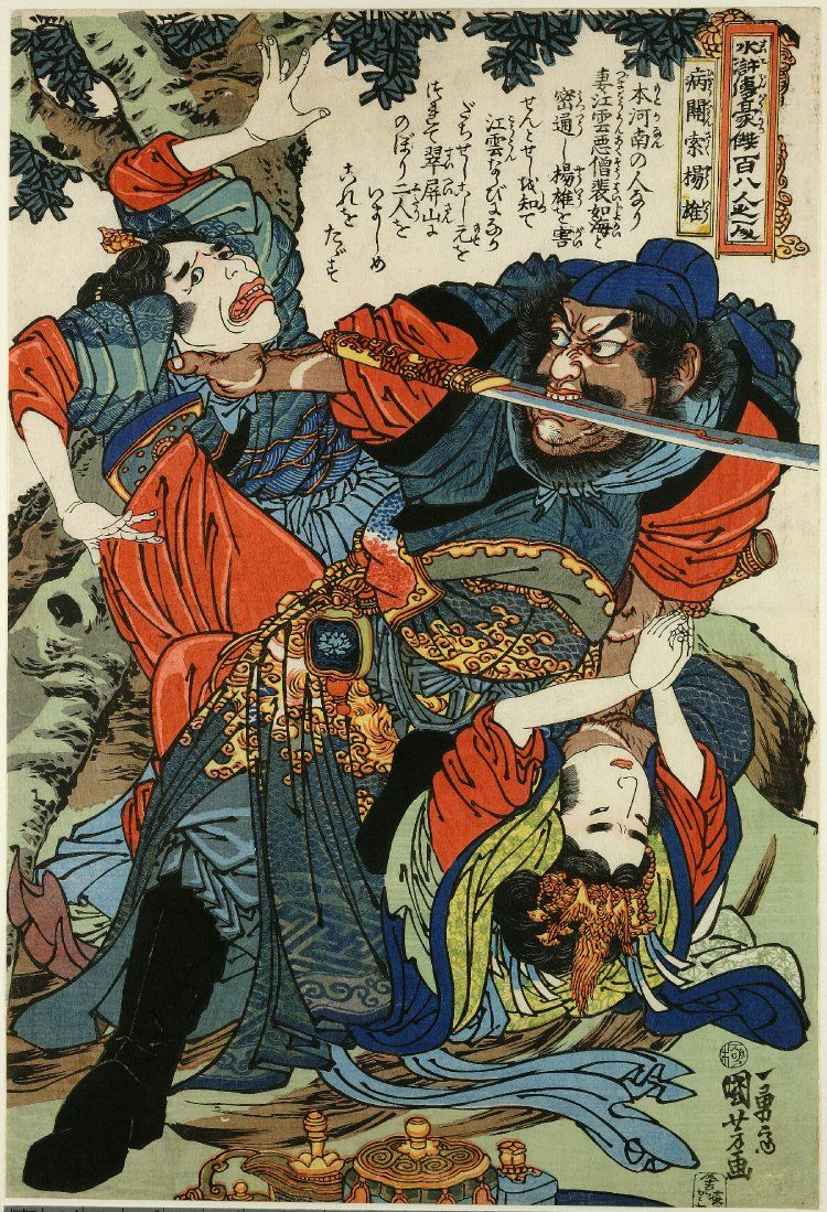 Yang Xiong (楊雄), sword in mouth, pinning down wife + maid by throat